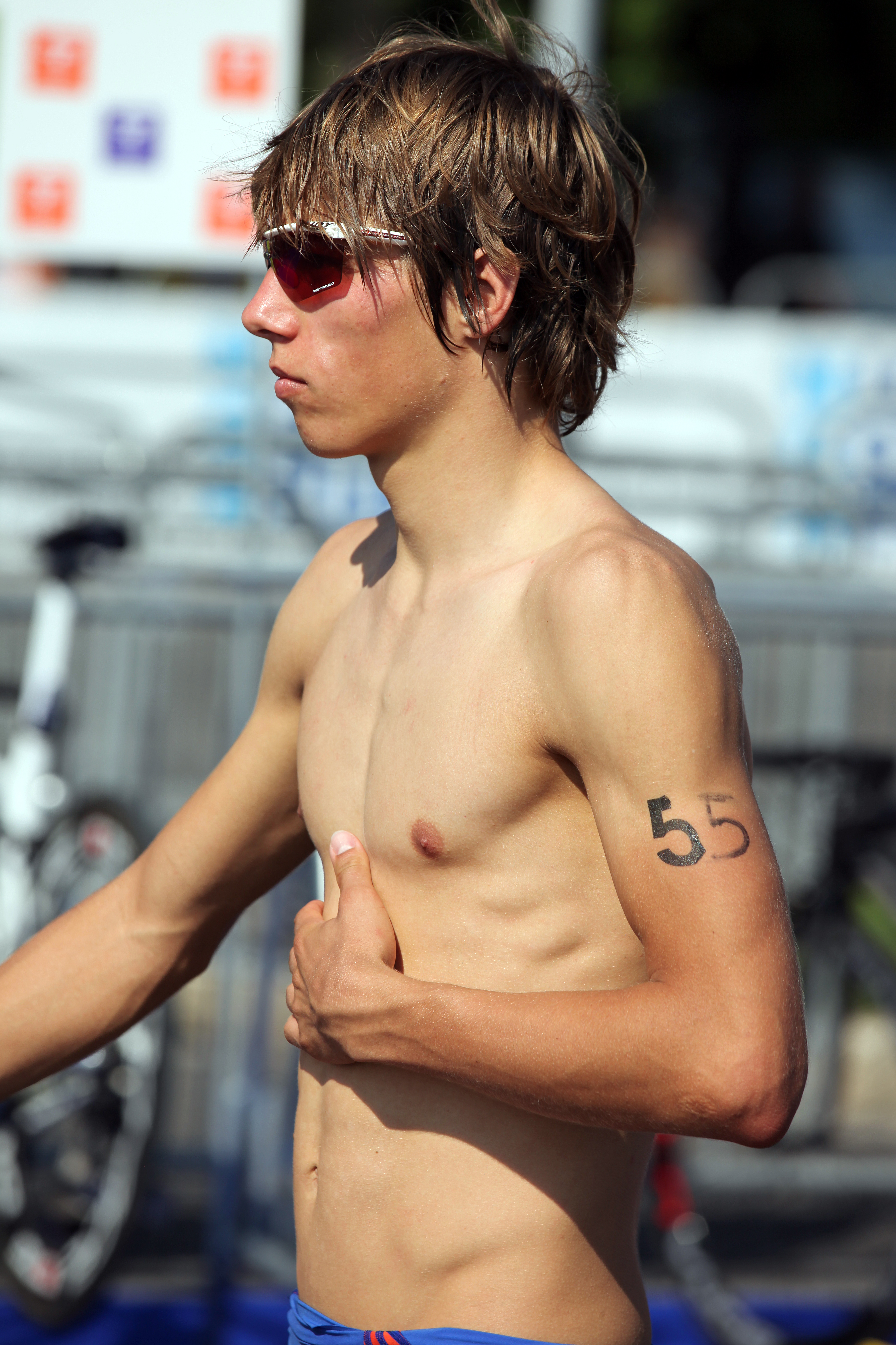 Justus NIESCHLAG at the Grand Final of the French Club Championship Series (Grand Prix de Triathlon, Lyonnaise des Eaux) in Nice (Nizza) 2012.